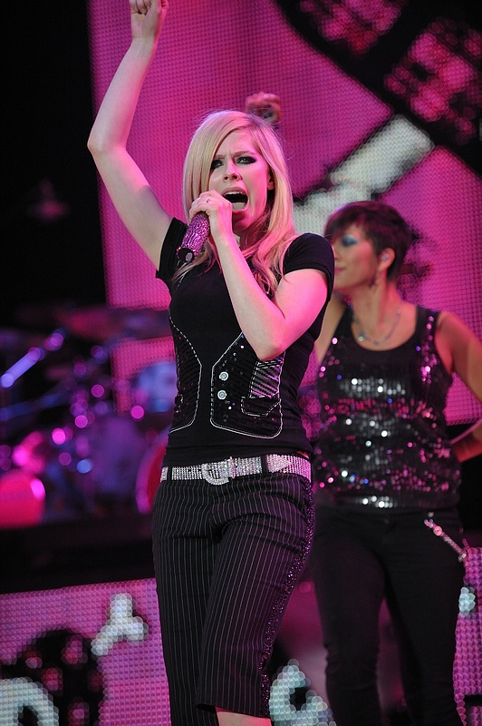 Avril Lavigne performing at the Heineken Music Hall, in Amsterdam, Netherlands.